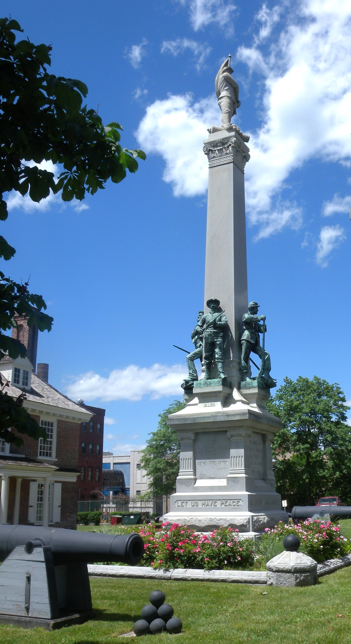 Looking north at Civil War monument on grounds of Philipse Manor on a sunny early afternoon.